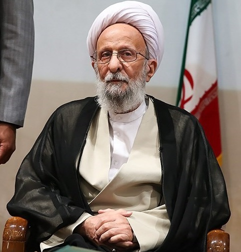 Ayatollah Mohammad-Taqi Mesbah-Yazdi, spiritual leader of Front of Islamic Revolution Stability in party's congress for announcement of presidential candidate of party